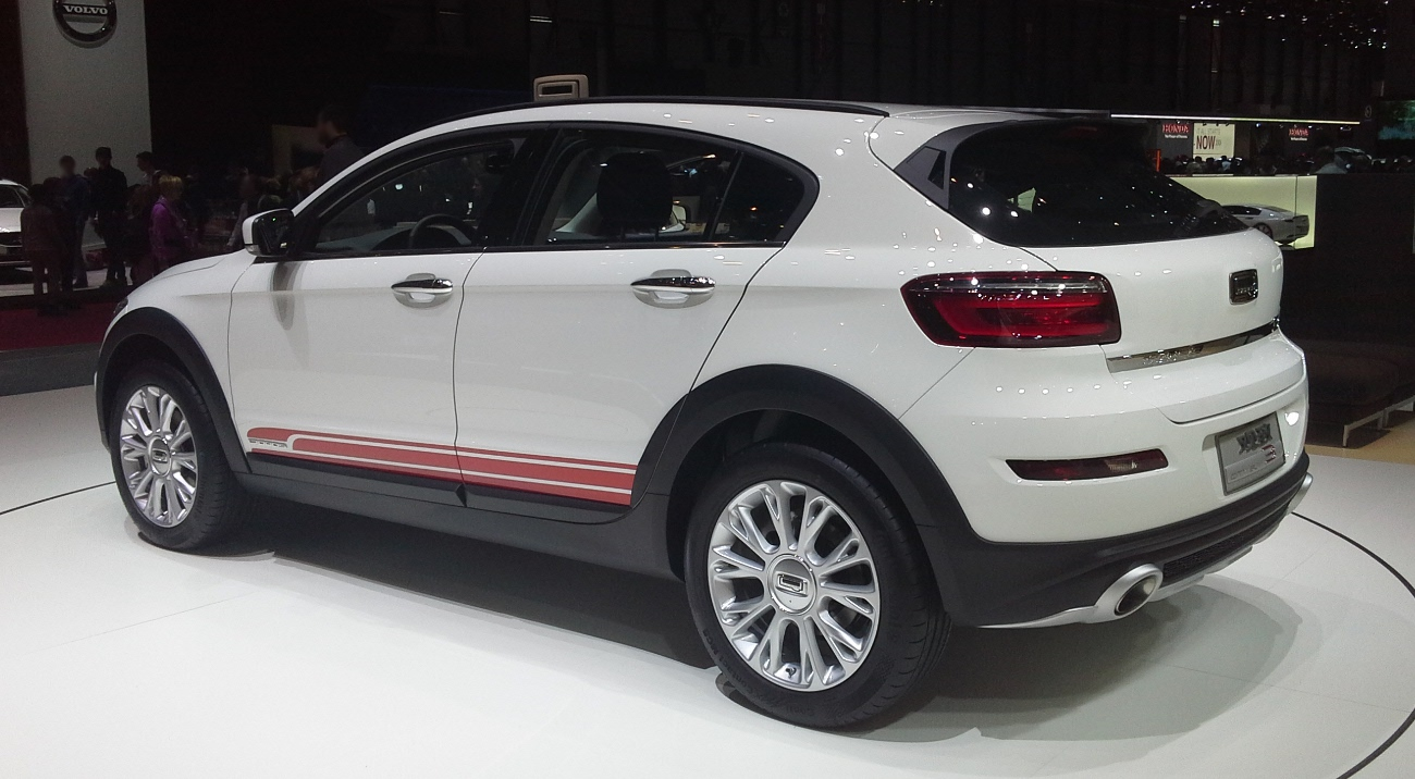 Qoros 3 City SUV photographed at the 2015 Geneva Motor Show, Geneva, Switzerland.